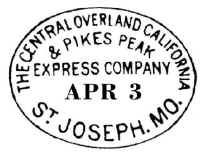 Pony Express Postmark: The first westbound Pony Express trip left St. Joseph on April 3, 1860 and arrived in San Francisco on April 14. Letters were sent under cover from the East to St. Joseph, and never directly entered the U.S. mails.